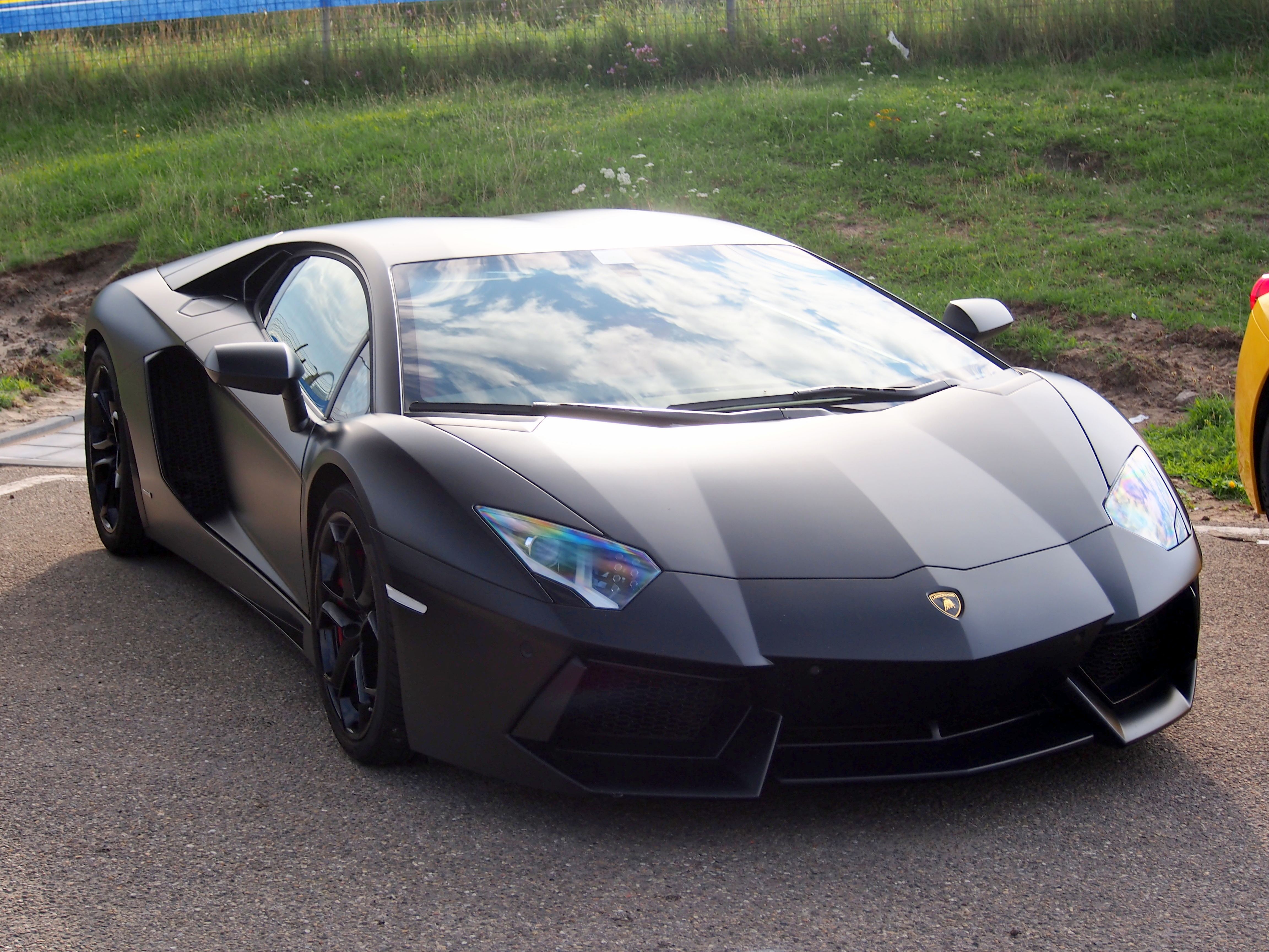 Photographed at the Nationaal Oldtimer Festival Zandvoort 2014, The Netherlands.